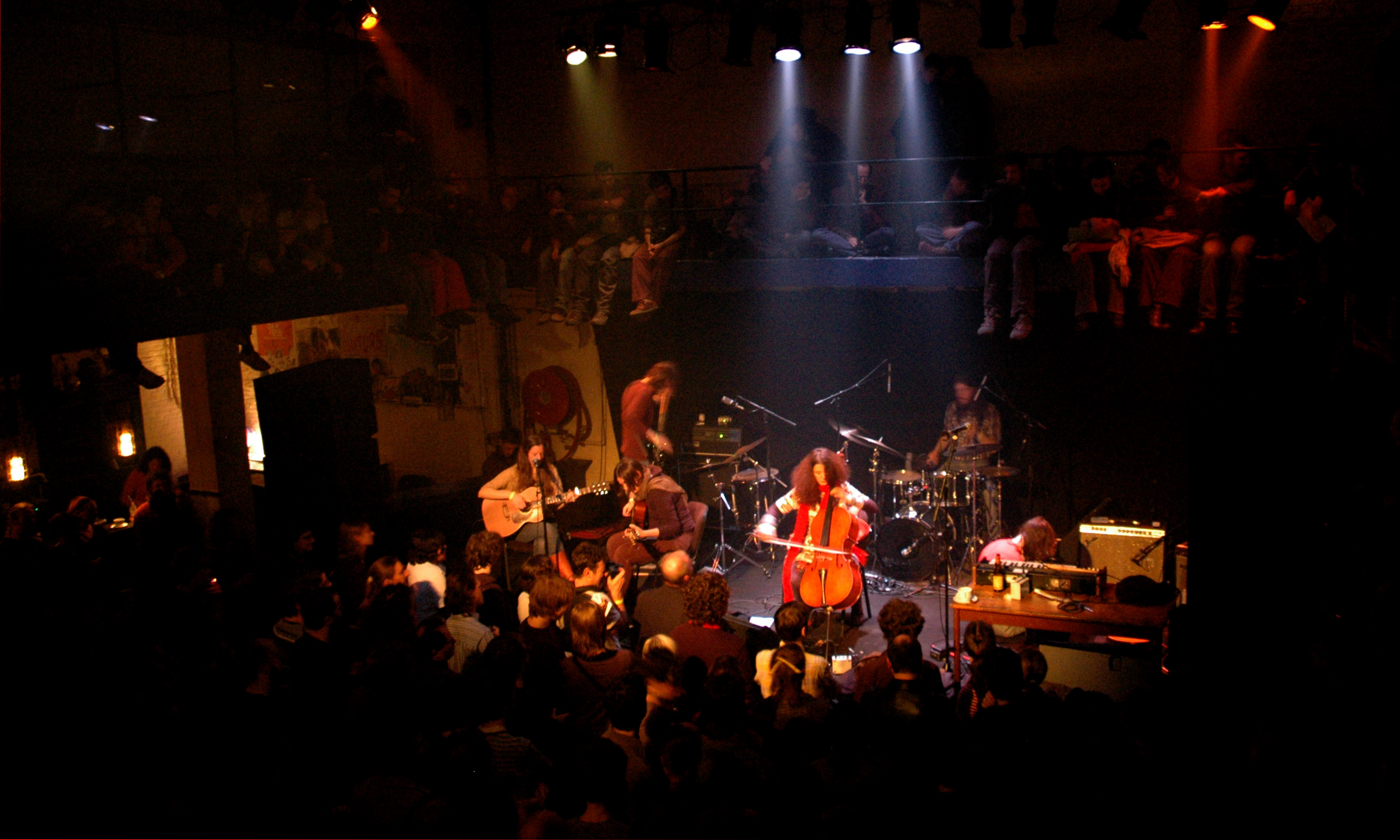 Philadelphia folk band Espers at Kraak Festival 2006.